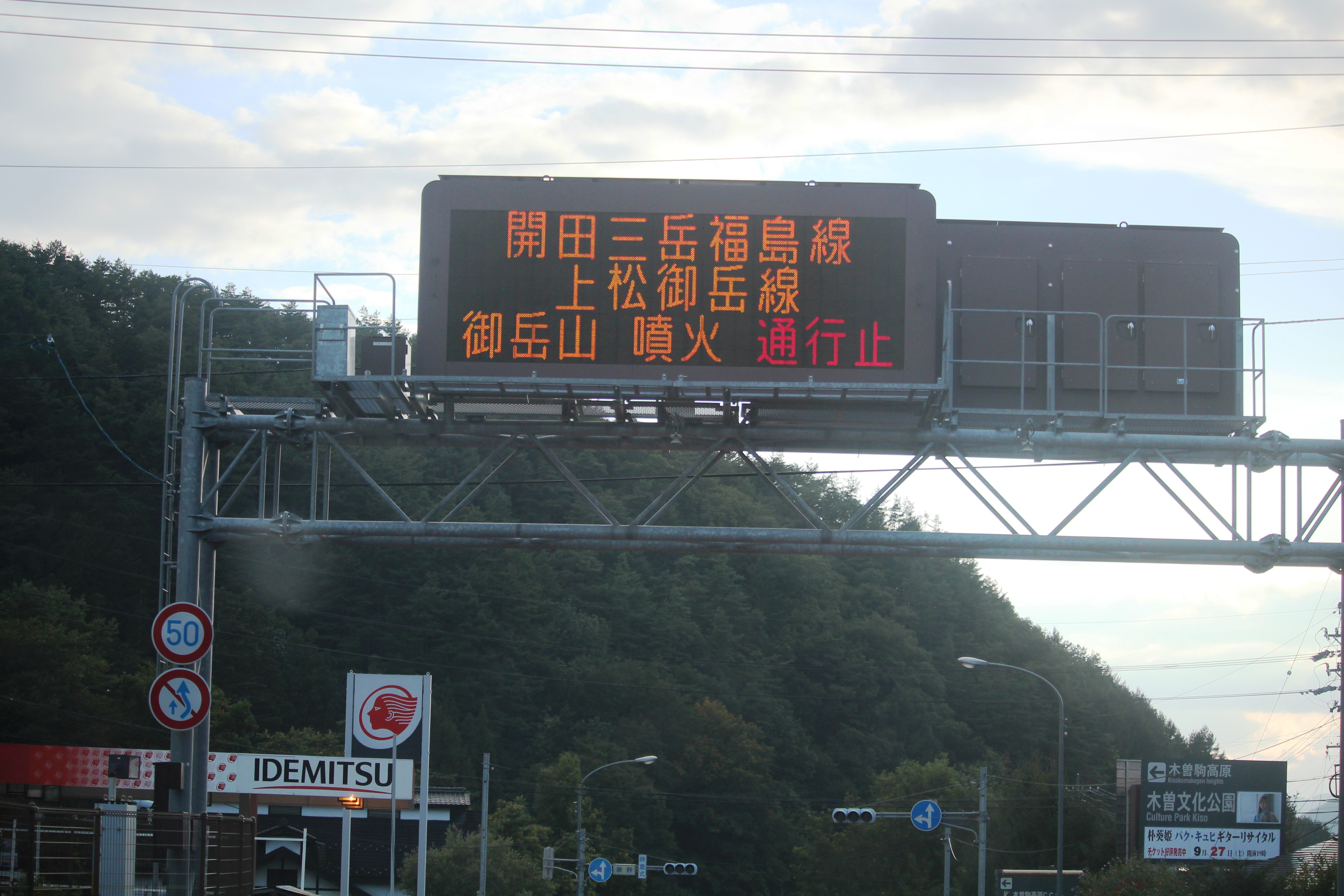 LED displays on R19 in Kiso, Nagano prefecture, Japan.